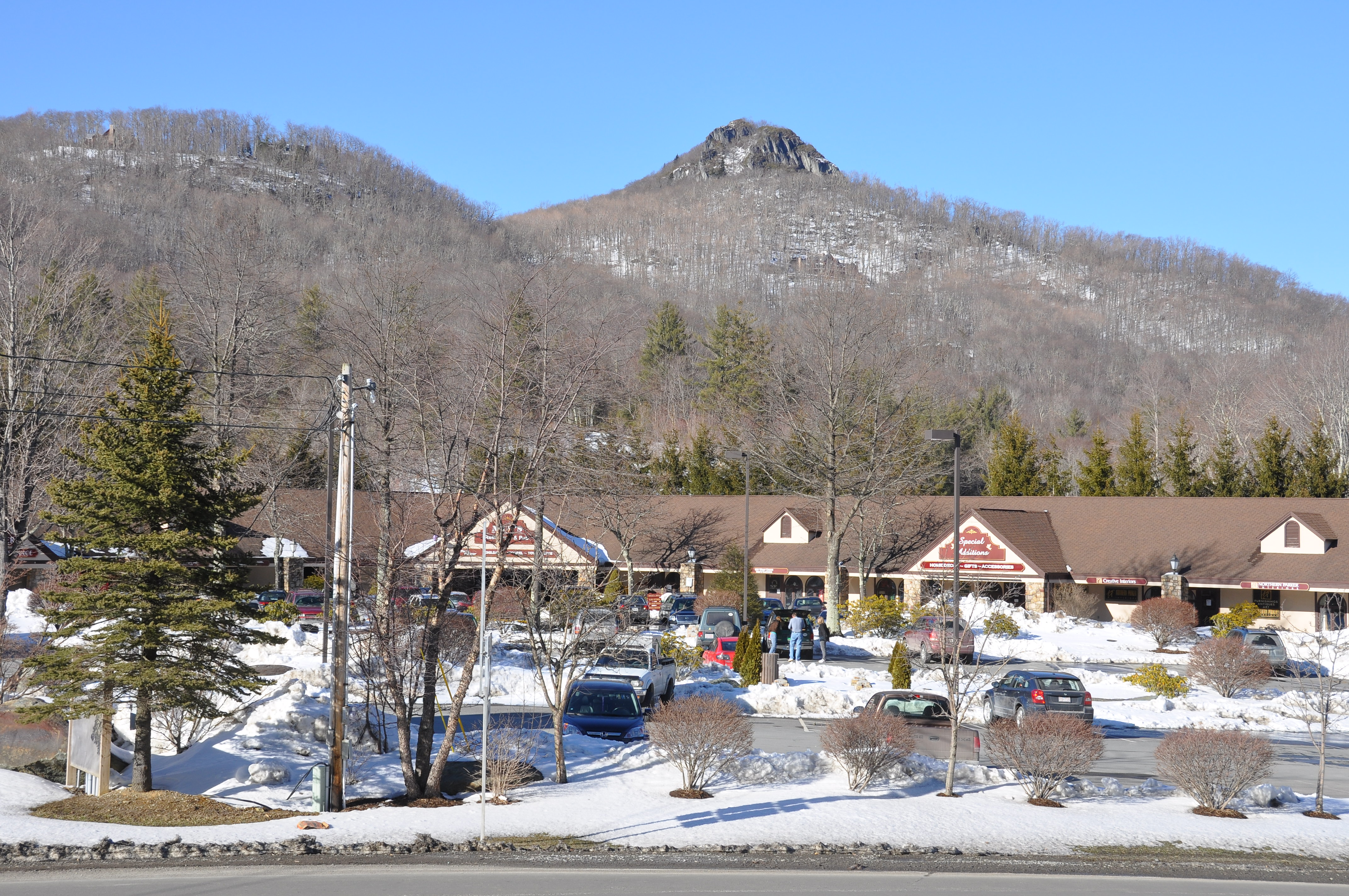 Picture of the shops of Tynecastle, with Peak Mountain in the background.